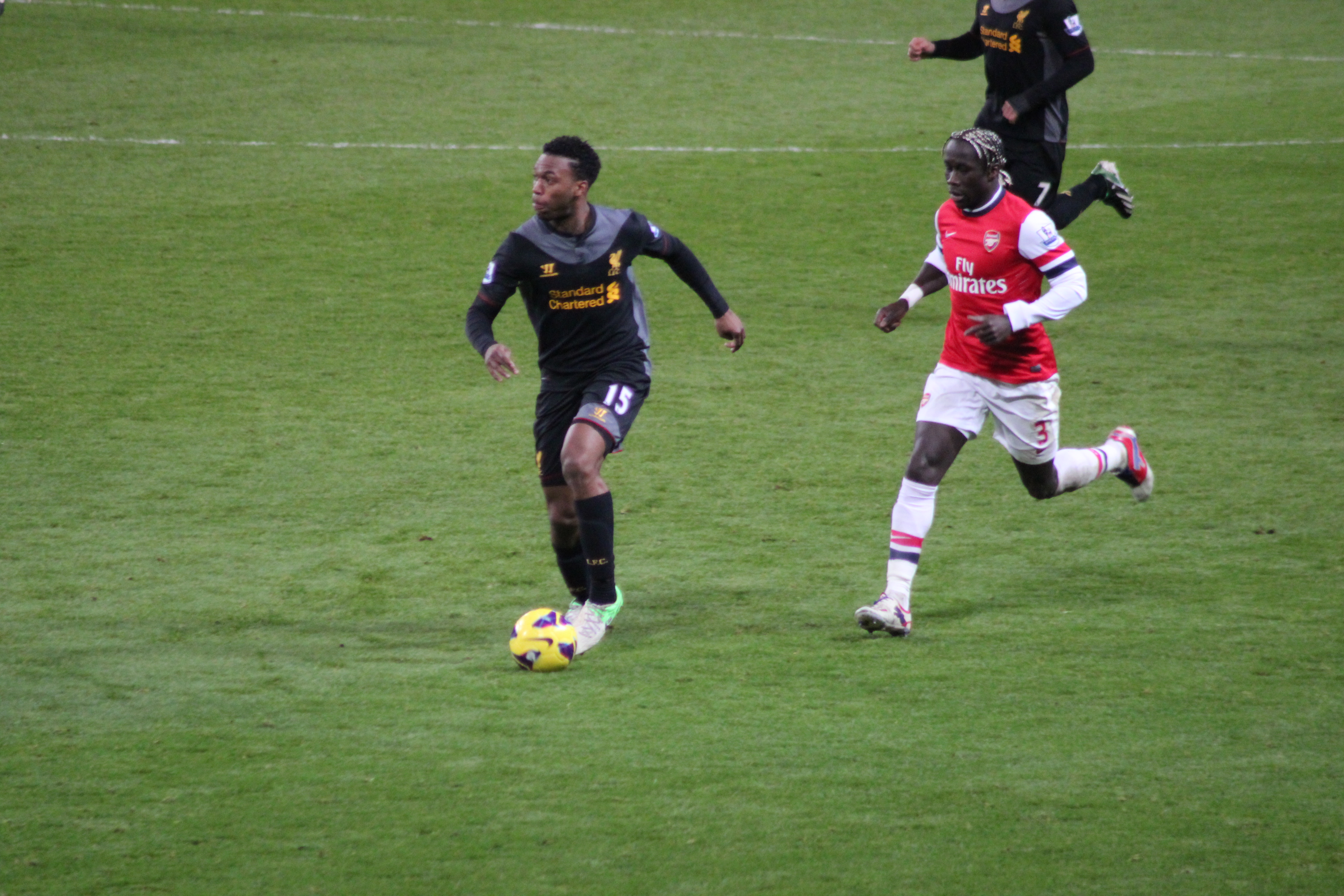 Daniel Sturridge playing against Arsenal at the Emirates Stadium on 30/01/2013.